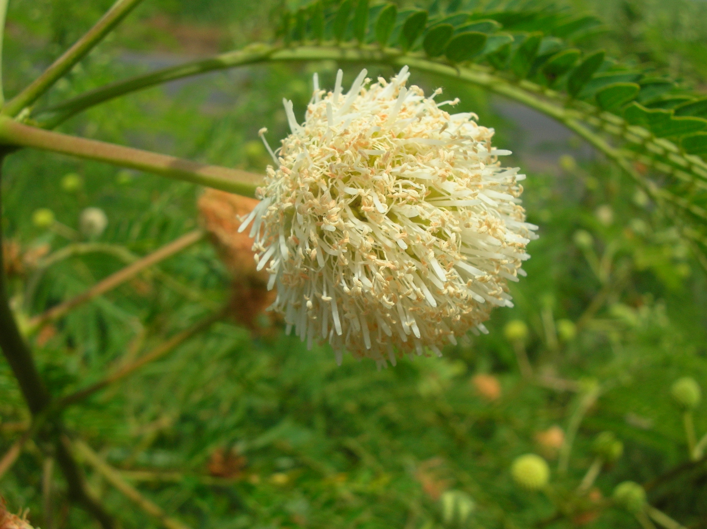 Leucaena leucocephala (flowers). Location: Maui, Kahului Airport